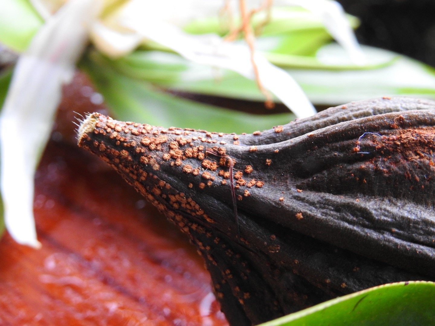 Fruit of tea mangrove